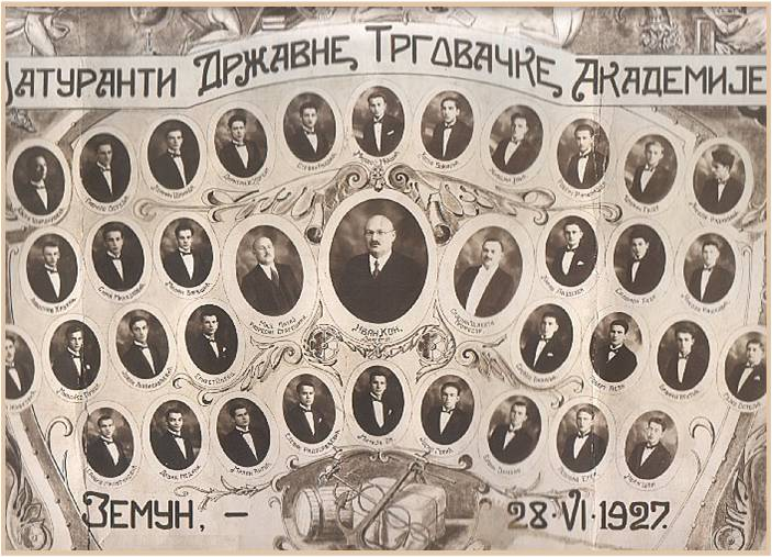 First seniors